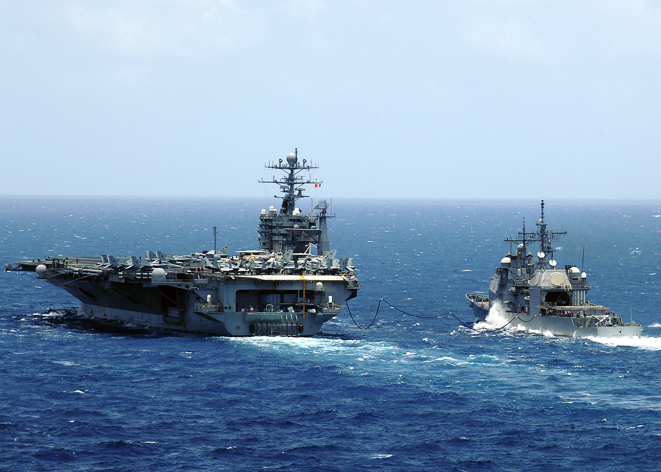 Caribbean Sea (April 20, 2006) - The guided-missile cruiser USS Monterey (CG 61) conducts a fueling at sea (FAS) with the Nimitz-class aircraft carrier USS George Washington (CVN 73). George Washington Carrier Strike Group is currently participating in Partnership of the Americas, a maritime training and readiness deployment of the U.S. Naval Forces with Caribbean and Latin American countries in support of the U.S. Southern Command (SOUTHCOM) objectives for enhanced maritime security. U.S. Navy photo by Photographer's Mate 3rd Class Christopher Stephens (RELEASED)